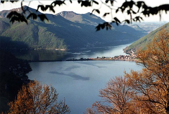 Lake Lugano with on the left side the Monte San Giorgio and Melide bridge (with the trees)